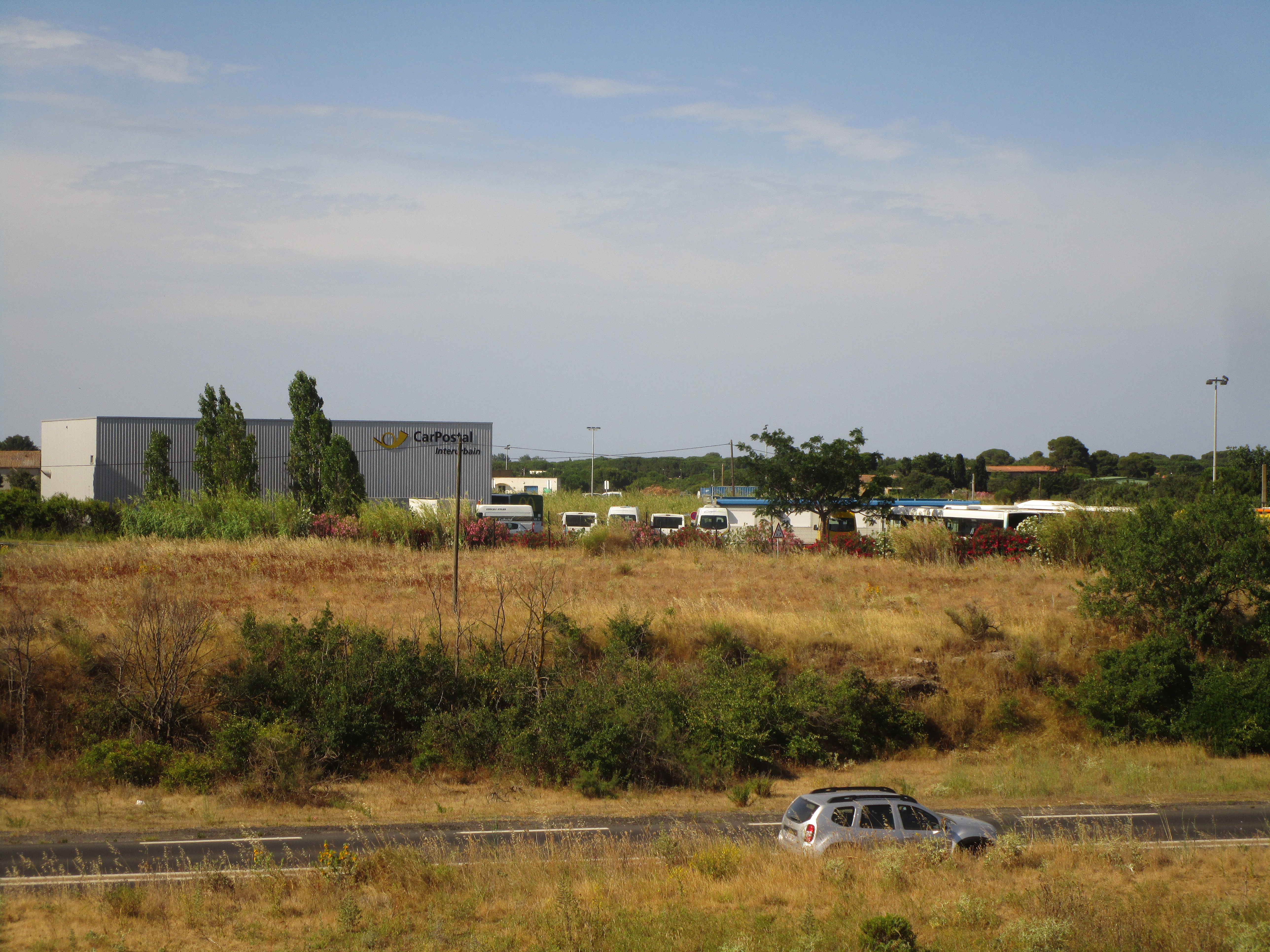 The yard of CarPostal Agde — in Agde, France — on June 25, 2017.